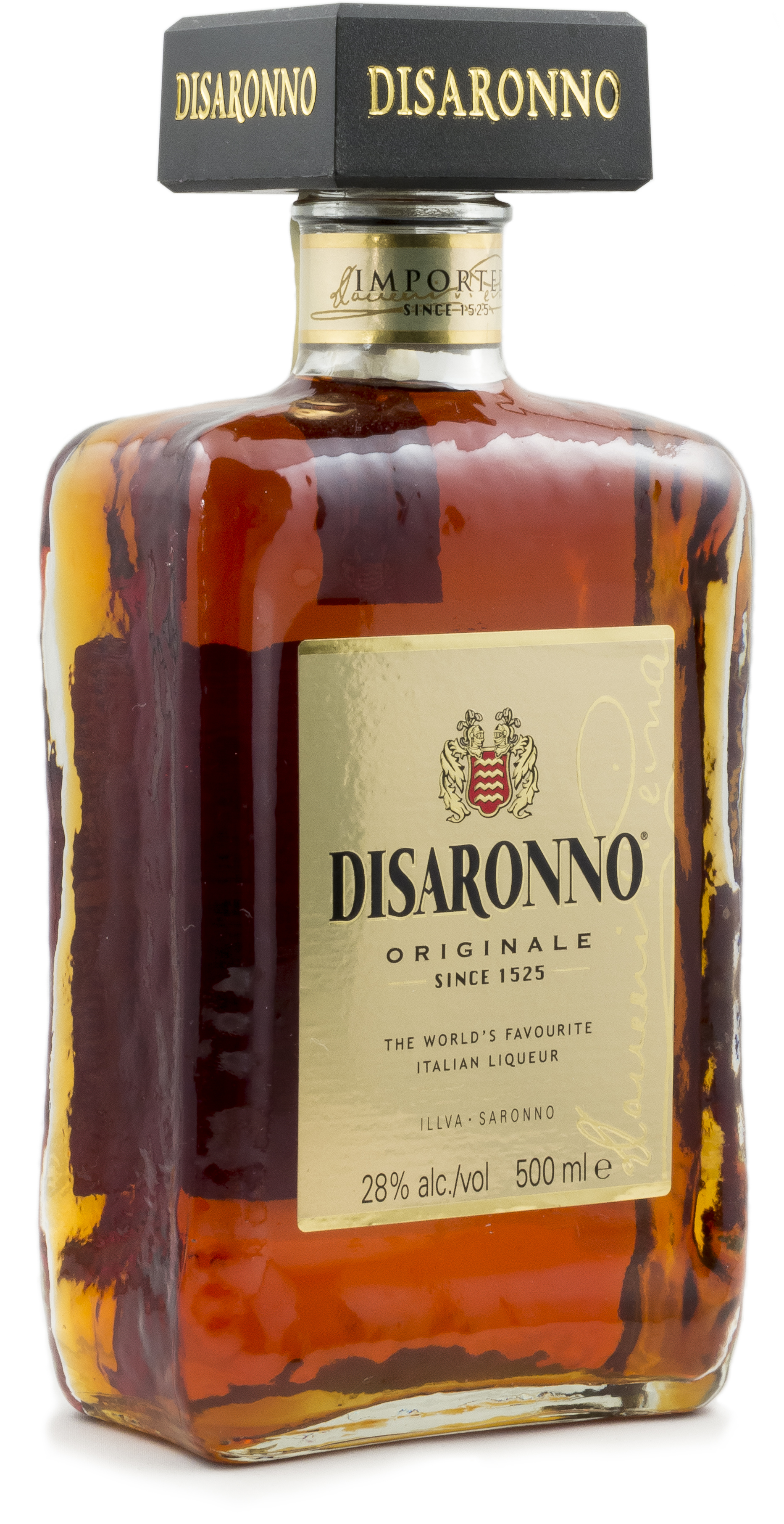 Disaronno Originale